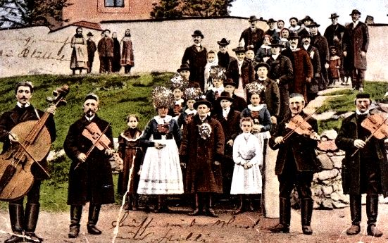 "Skřipky" Fiddle band on wedding ocassion